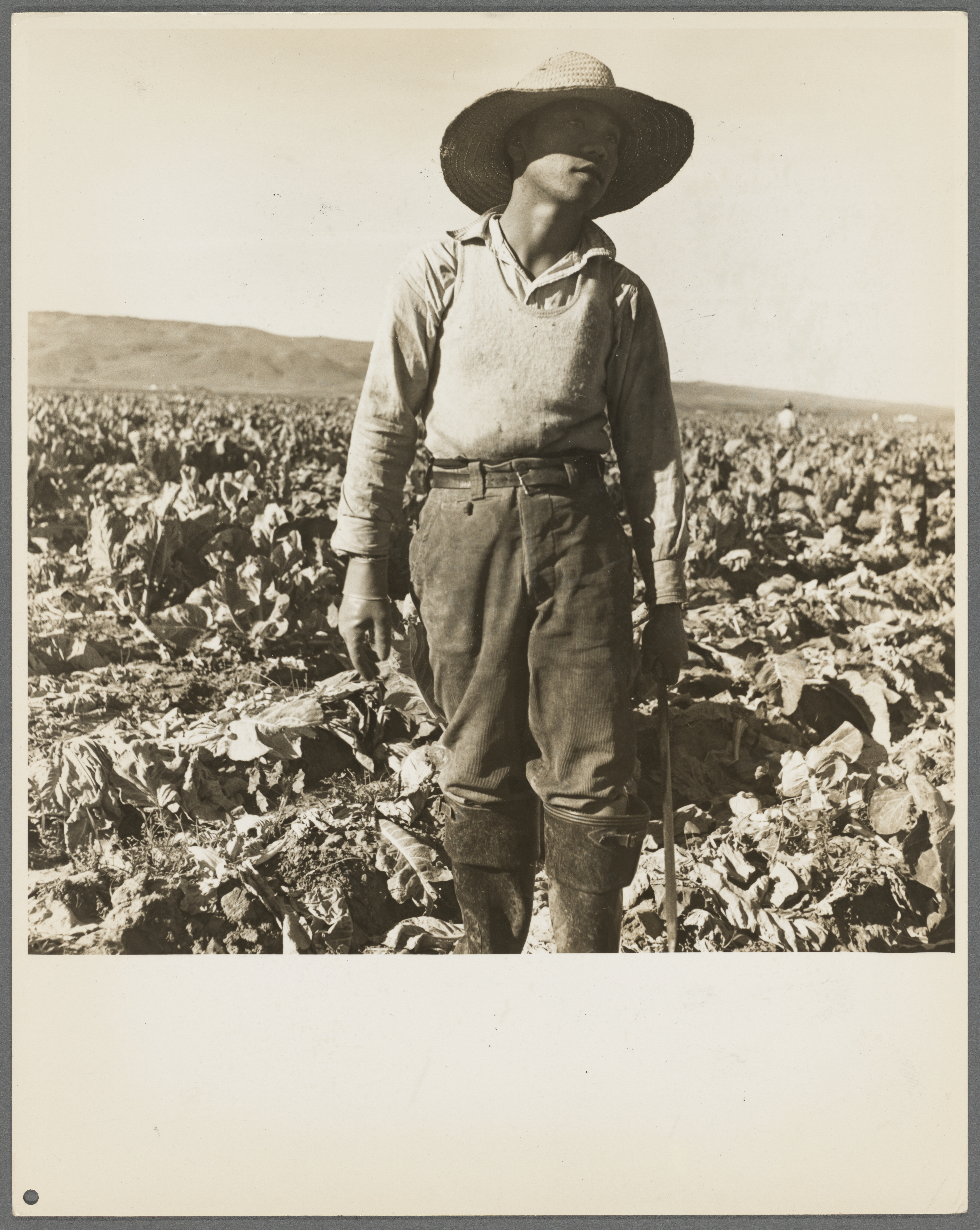 TMS ID: 23061 TMS Object Number: 016200-E Universal Unique Identifier (UUID): 66715110-83be-0136-0de0-37c6c0c31c8a